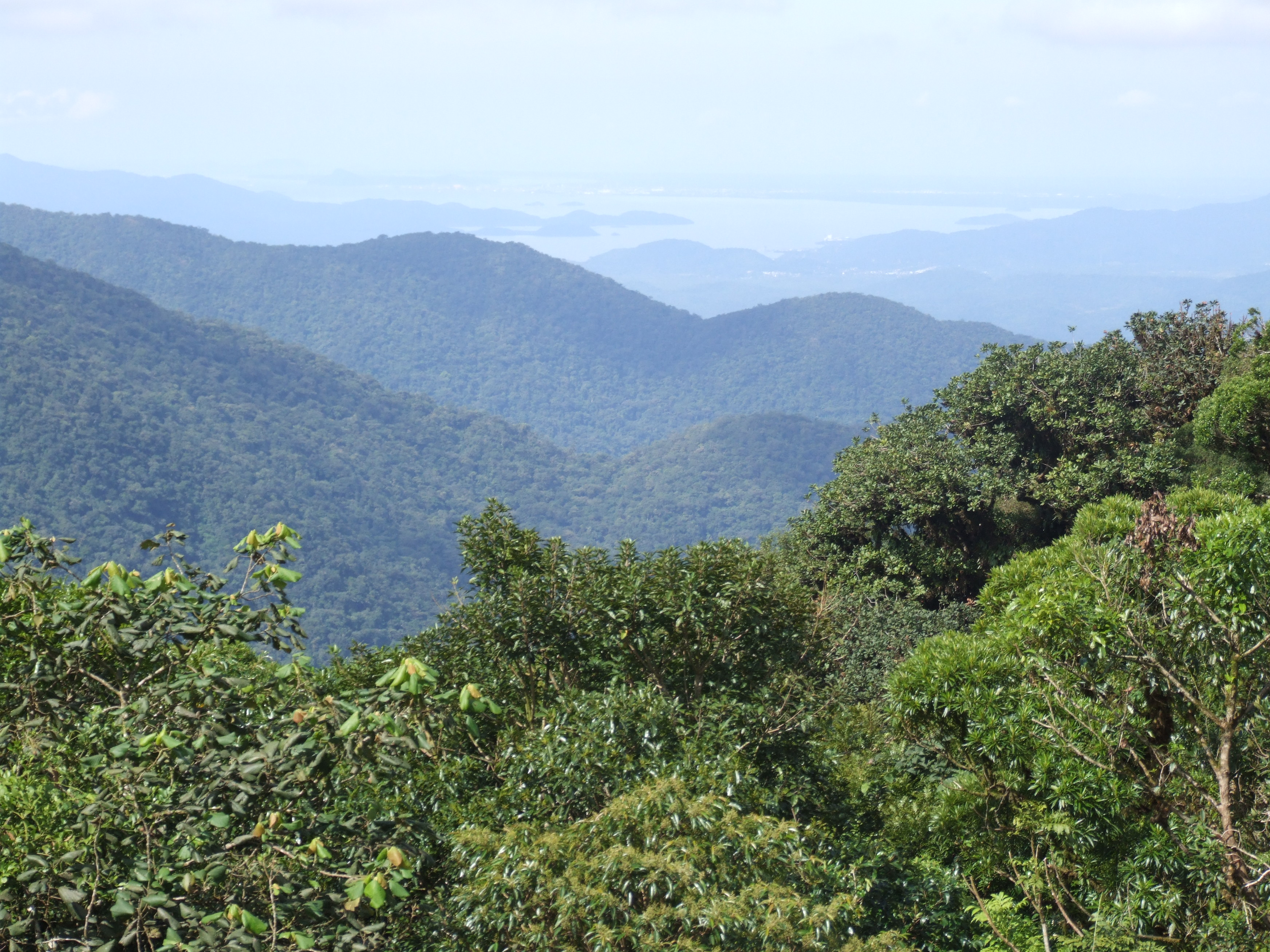 Antonina Bay as viewed from the Serra do Mar Paranaense.